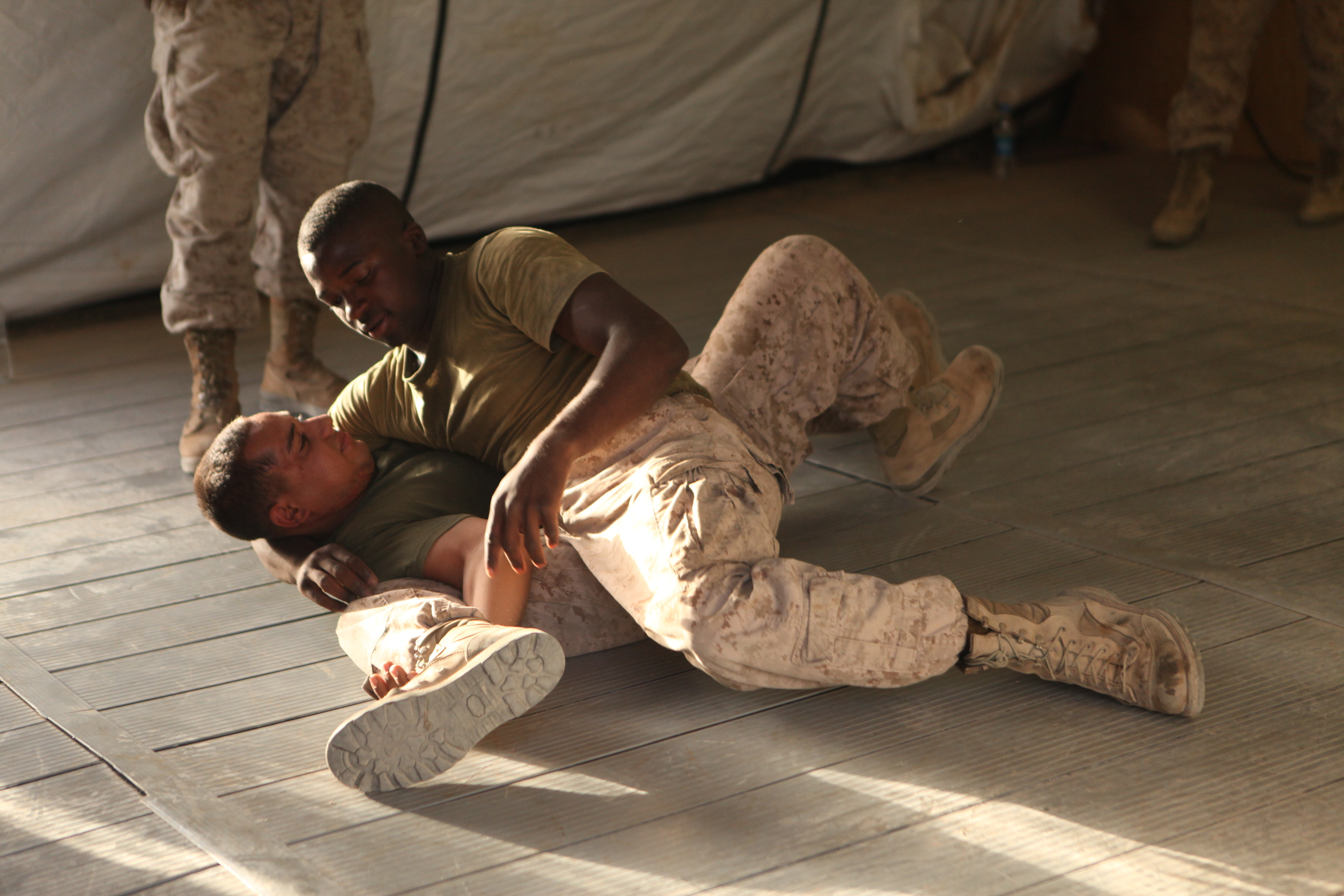 U.S. Marines with Headquarters and Support Company, 3rd Battalion, 8th Marine Regiment, Regimental Combat Team 6 participate in a Marine Corps Martial Arts Program course at Forward Operating Base Geronimo in Helmand province, Afghanistan, Aug. 31, 2012. Marines completing the course earned a black belt.